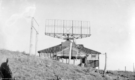 View of the front entrance to the radar shack with receiver, operated by 56 Radar Unit, RAAF on Grassy Hill, Cooktown from early 1942 to February 1945. The receiver and transmitter were housed in separate buildings adjacent to a lighthouse; the shack shown is surrounded by an imitation lighthouse keeper's cottage for camouflage purposes